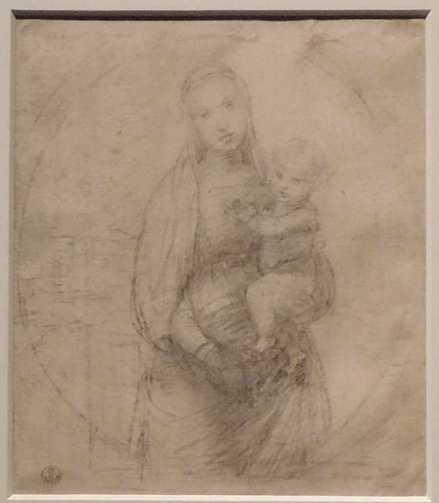 see filename My photo of PD-Art